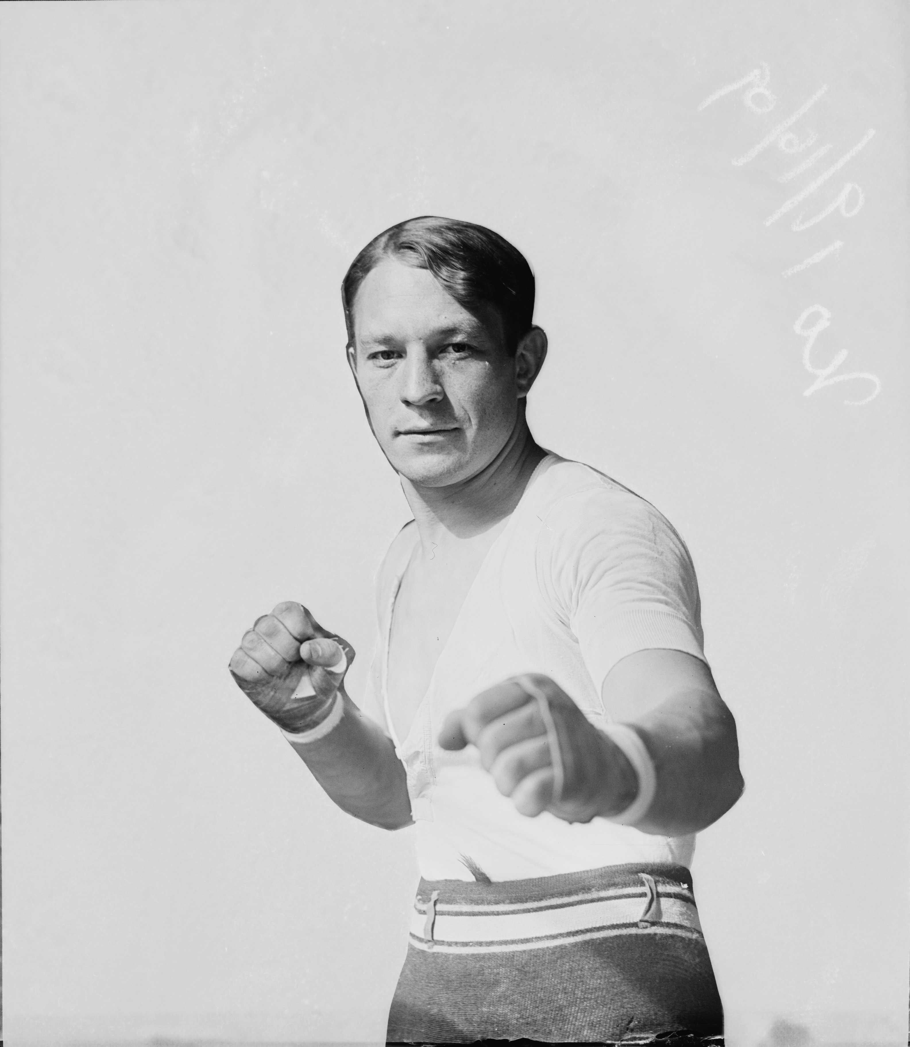 Boxer Stanley Ketchel in a traditional fighting pose